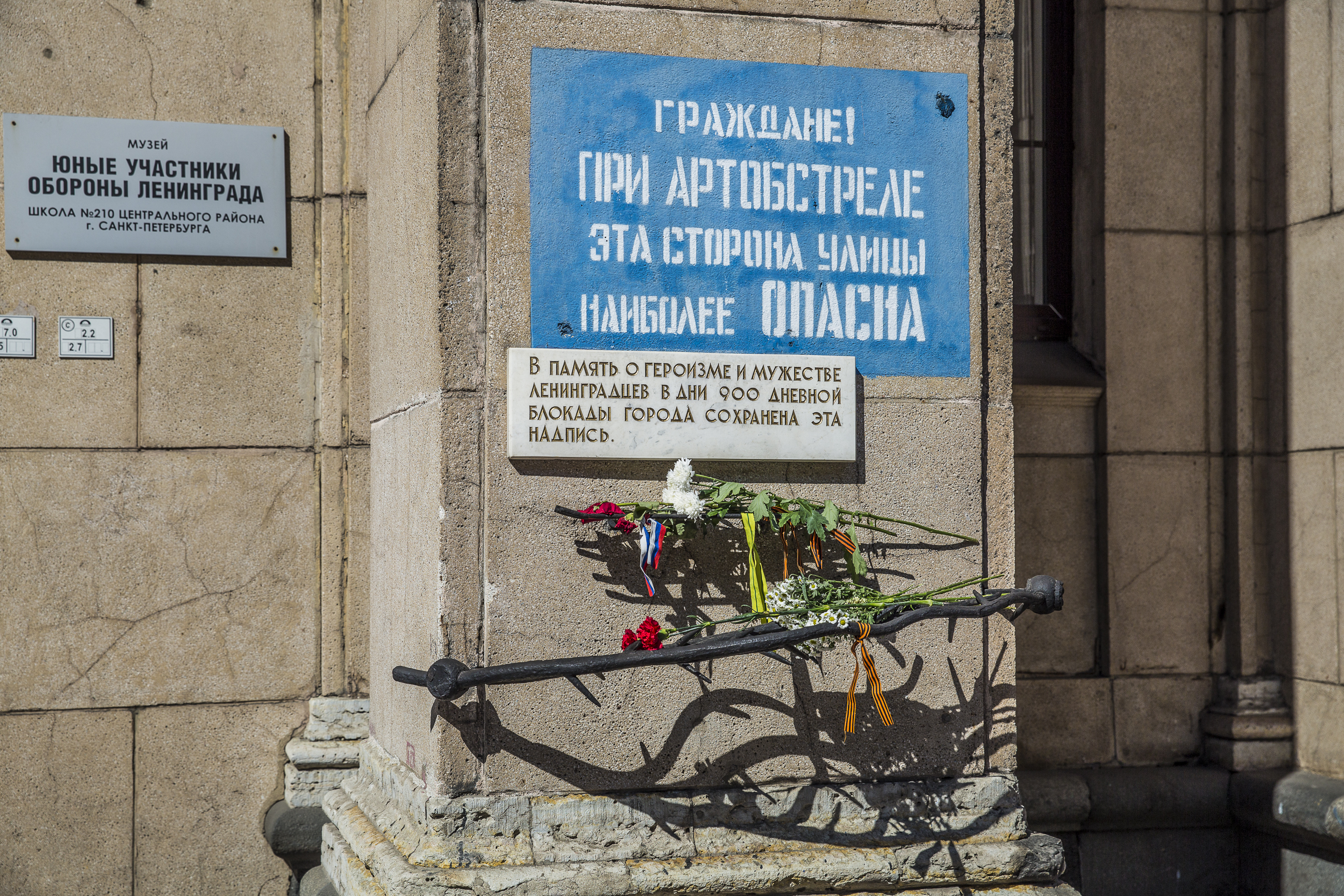 Nevsky Prospect 14, Sign during the Siege of Leningrad: "Citizens! During artillery bombardment this side of the street is especially dangerous".